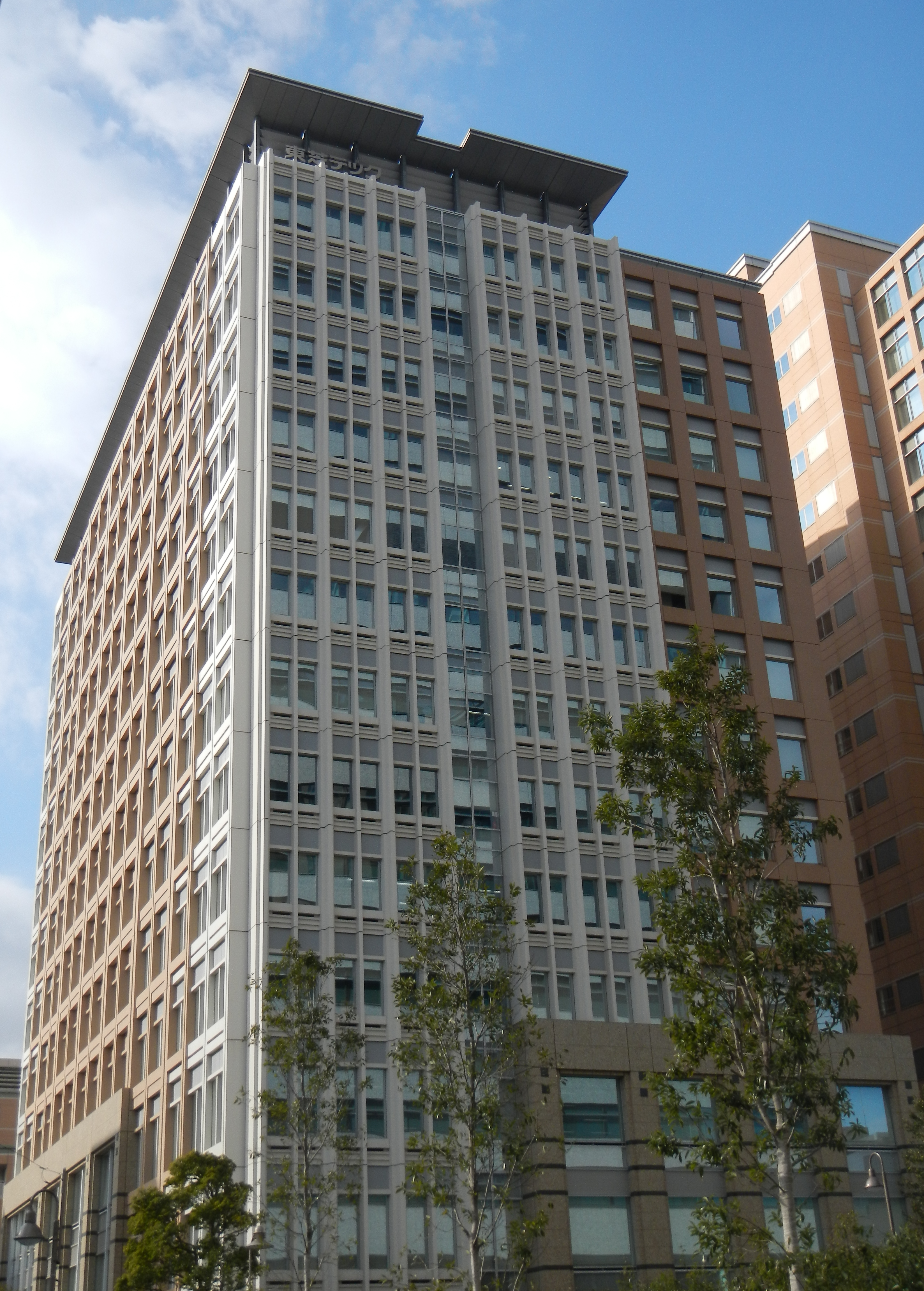 Ex-Head Office Building of TOSHIBA TEC Corporation, Shinagawa, Tokyo